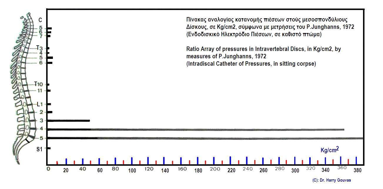 Pressures in intravertebral discs